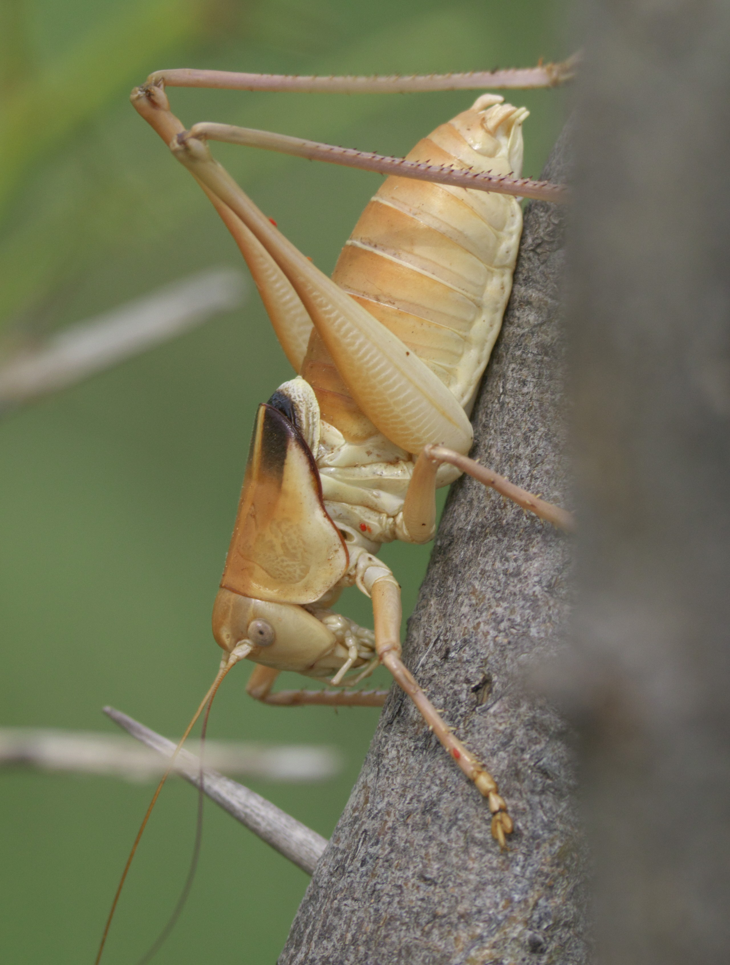 Pediodectes haldemanii, Haldeman's Shieldback, ID Confidence: 88